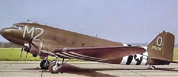 C-47 Skytrain of the 88th Troop Carrier Squadron, 438th Troop Carrier Group - RAF Greenham Common, England.